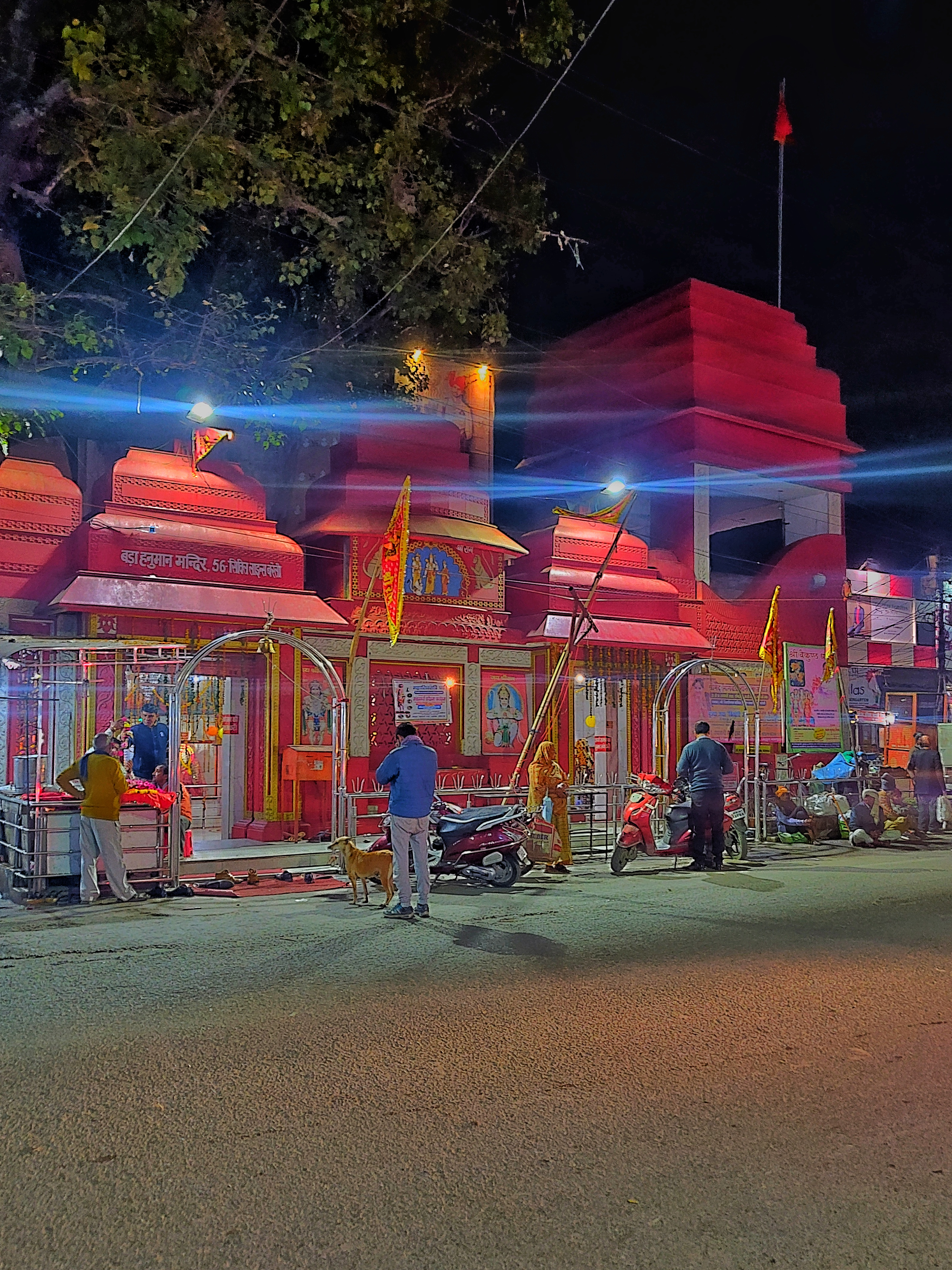 Hanuman Temple Civil lines bareilly